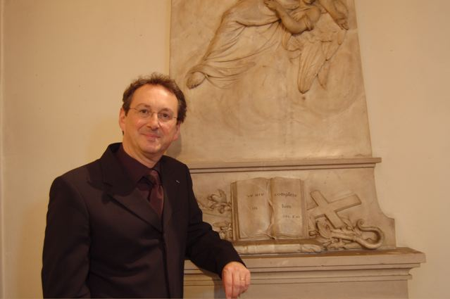 Peter Phillips at St Andrew by the Wardrobe, London, October 2006